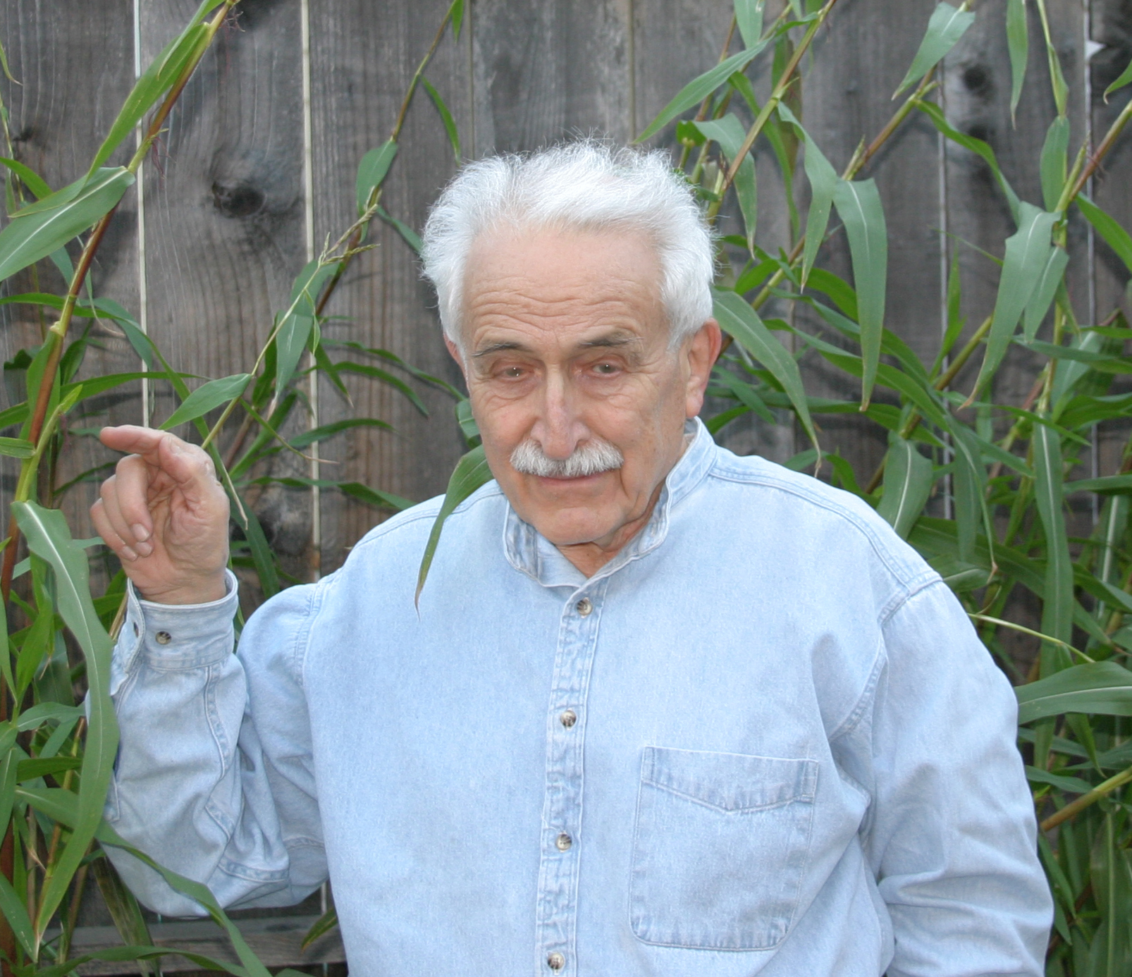 Entomologist Fred Iltis (1923-2008) at his home in San Jose, California, with a stand of Zea diploperennis that he had planted alongside his driveway.